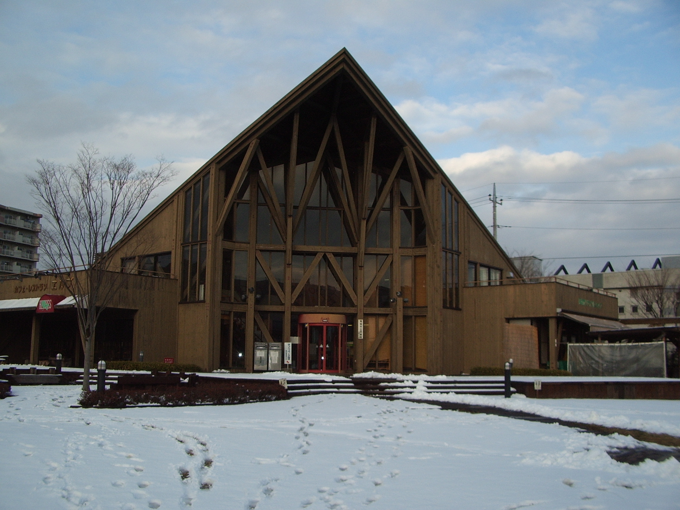 Koyodai Fine Forum that used to be in Koyodai, Inagi, Tokyo, Japan.